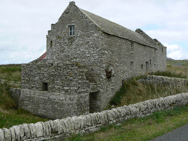 Disused grain mill, Tankerness, St Andrews, Orkney, Mainland, Orkney. Recently sold for conversion to a house, this disused mill still has its waterwheel and the mill burn.